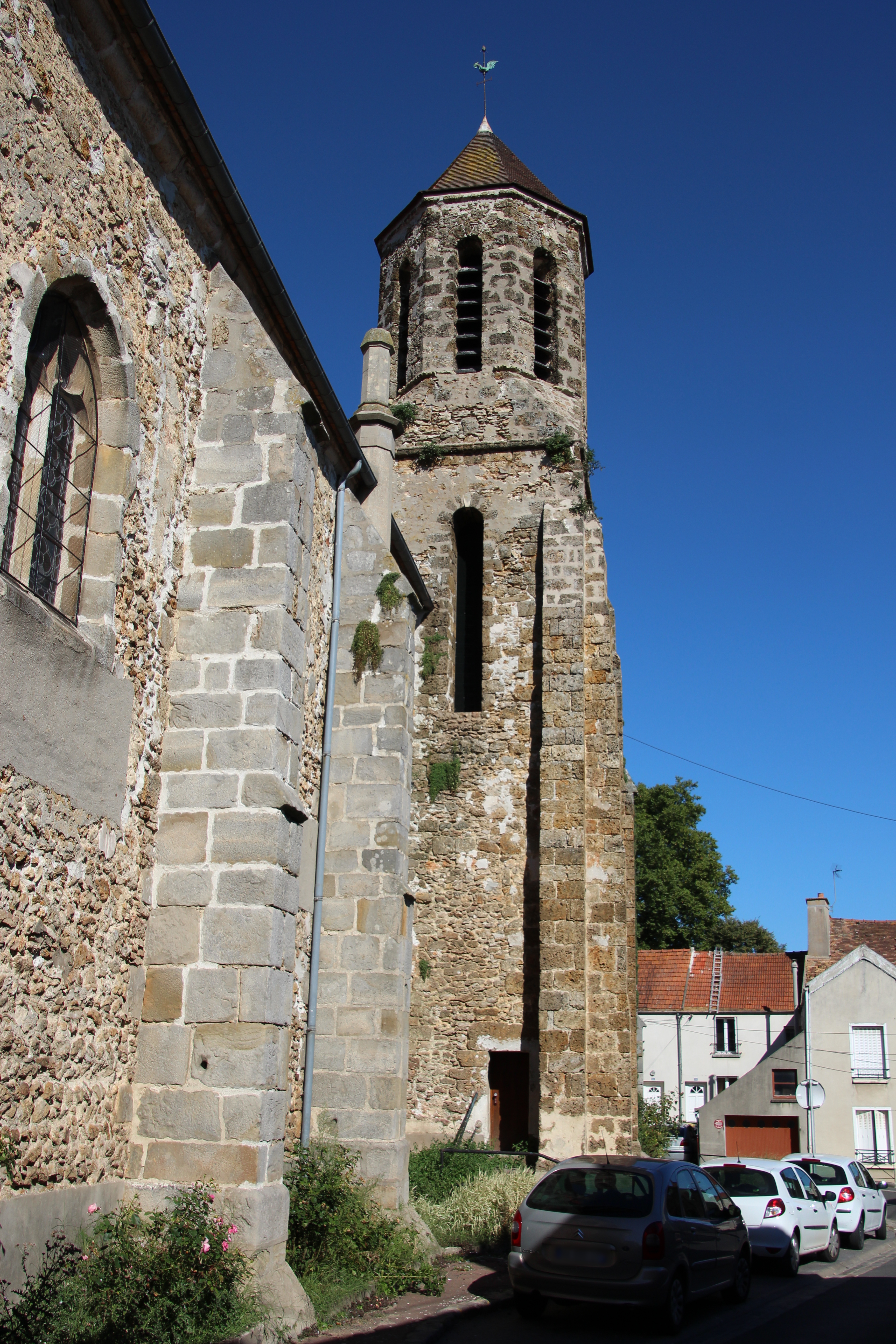 Sainte-Marie-Madeleine church of Marcoussis, France.